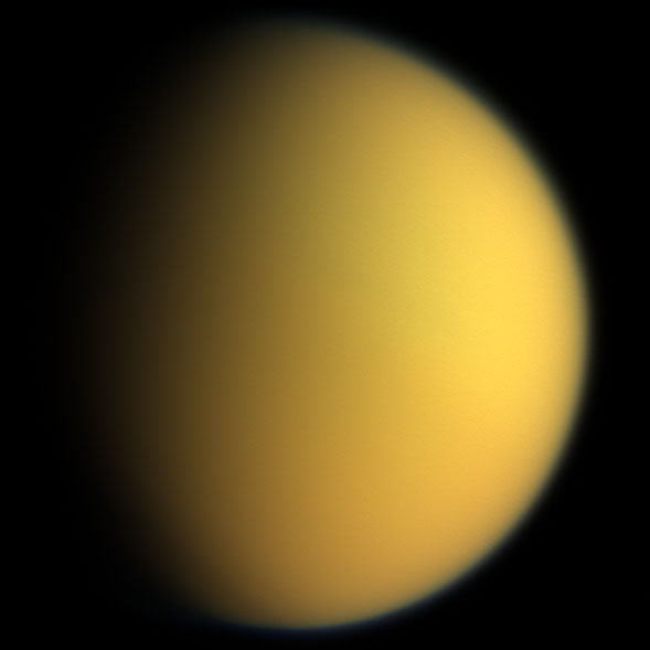 This natural color composite was taken during the Cassini spacecraft's April 16, 2005, flyby of Titan. It is a combination of images taken through three filters that are sensitive to red, green and violet light. It shows approximately what Titan would look like to the human eye: a hazy orange globe surrounded by a tenuous, bluish haze. The orange color is due to the hydrocarbon particles which make up Titan's atmospheric haze. This obscuring haze was particularly frustrating for planetary scientists following the NASA Voyager mission encounters in 1980-81. Fortunately, Cassini is able to pierce Titan's veil at infrared wavelengths (see PIA06228). North on Titan is up and tilted 30 degrees to the right. The images to create this composite were taken with the Cassini spacecraft wide angle camera on April 16, 2005, at distances ranging from approximately 173,000 to 168,200 kilometers (107,500 to 104,500 miles) from Titan and from a Sun-Titan-spacecraft, or phase, angle of 56 degrees. Resolution in the images is approximately 10 kilometers per pixel. The Cassini-Huygens mission is a cooperative project of NASA, the European Space Agency and the Italian Space Agency. The Jet Propulsion Laboratory, a division of the California Institute of Technology in Pasadena, manages the mission for NASA's Science Mission Directorate, Washington, D.C. The Cassini orbiter and its two onboard cameras were designed, developed and assembled at JPL. The imaging team is based at the Space Science Institute, Boulder, Colo. For more information about the Cassini-Huygens mission, visit and the Cassini imaging team home page